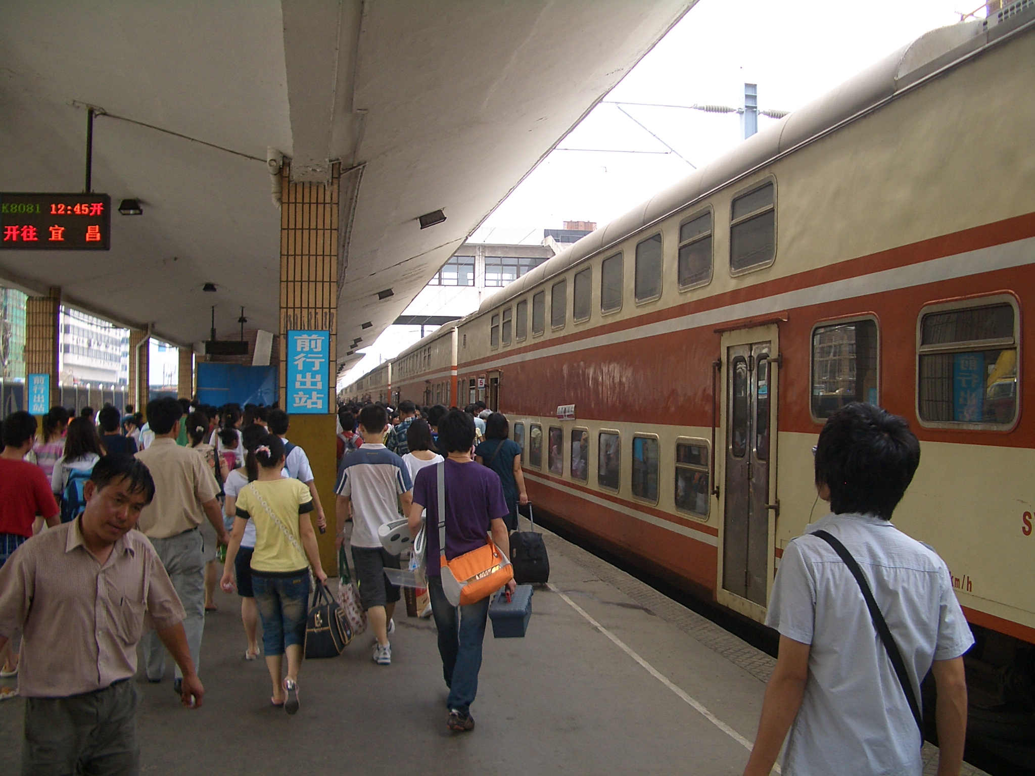 The arrival of a daily train from Hankou to the Yichang Train Station. Note bilevel cars (used for "hard seat" class)